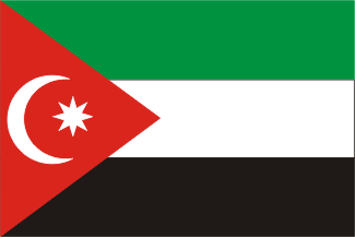 Flag of ANML